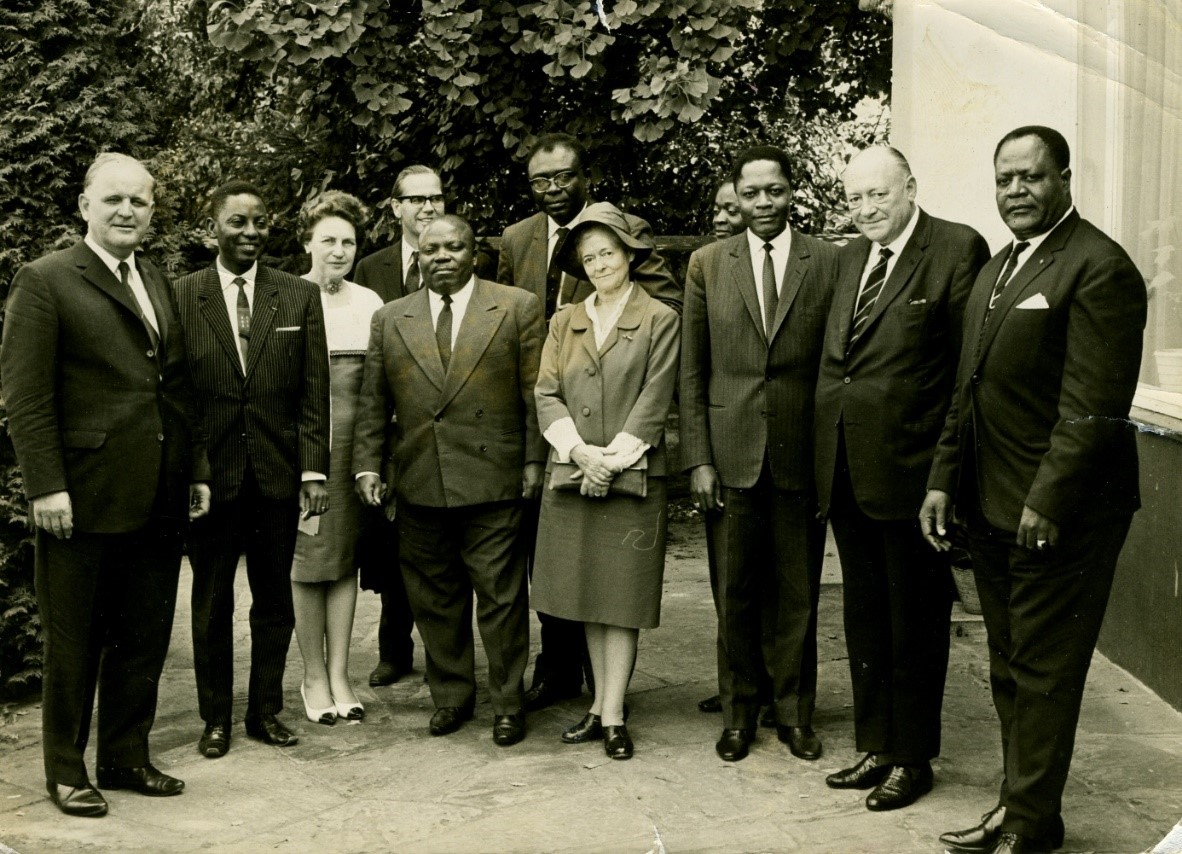 Kame Samuel - Konrad Adenauer